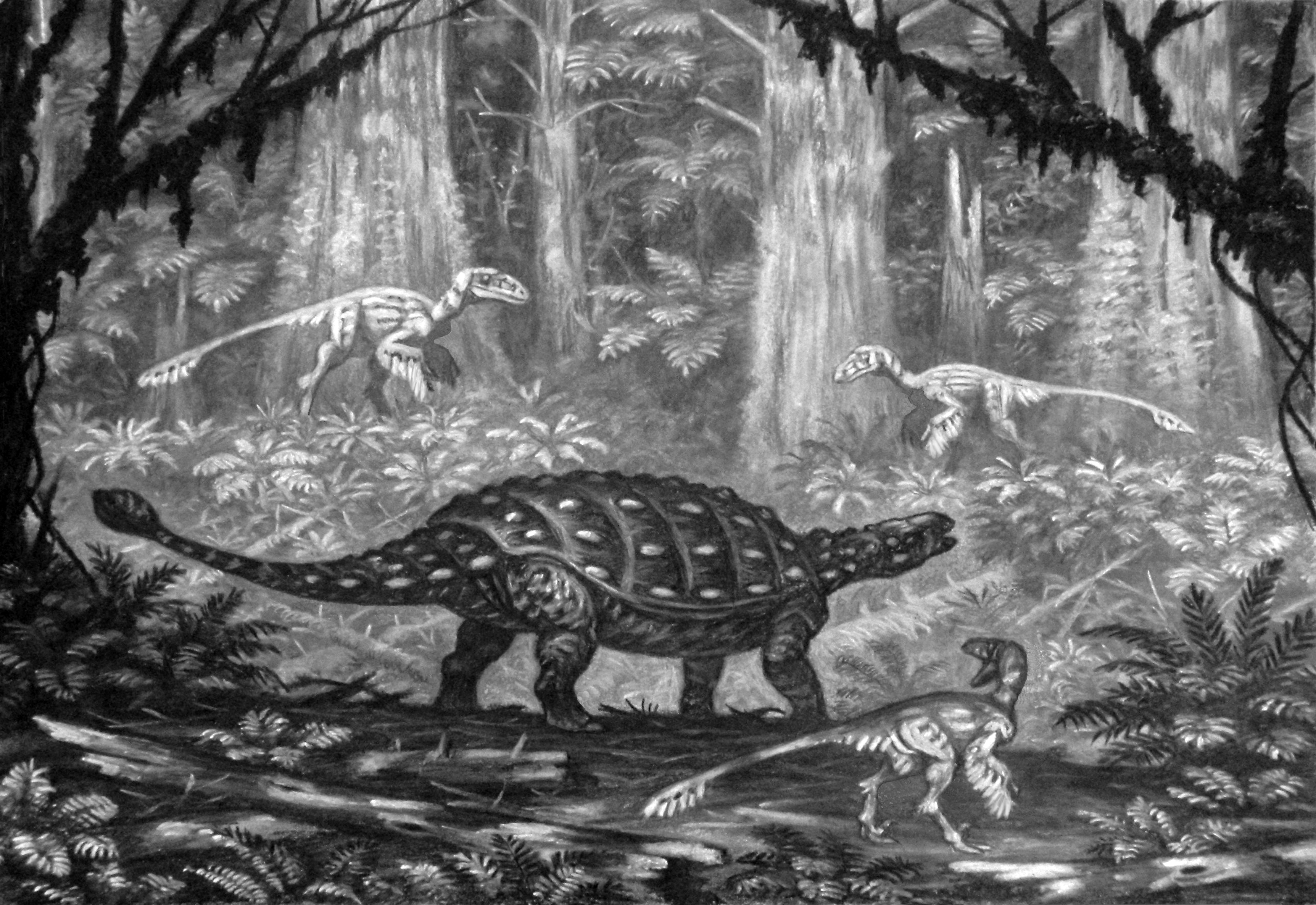 Talarurus surrounded by Achillobator.